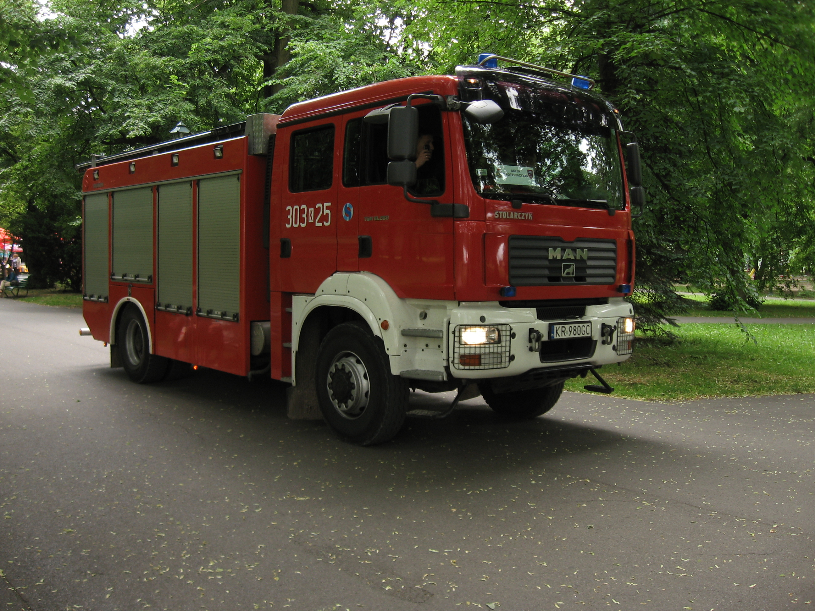 GCBA 5/32 MAN TGM 18.280/Stolarczyk of JRG 3 Kraków in Kraków's Jordan Park.